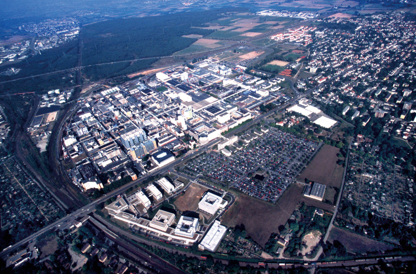 Arial view of the complete Headquarter of Merck in Darmstadt, Germany, viewed from South East